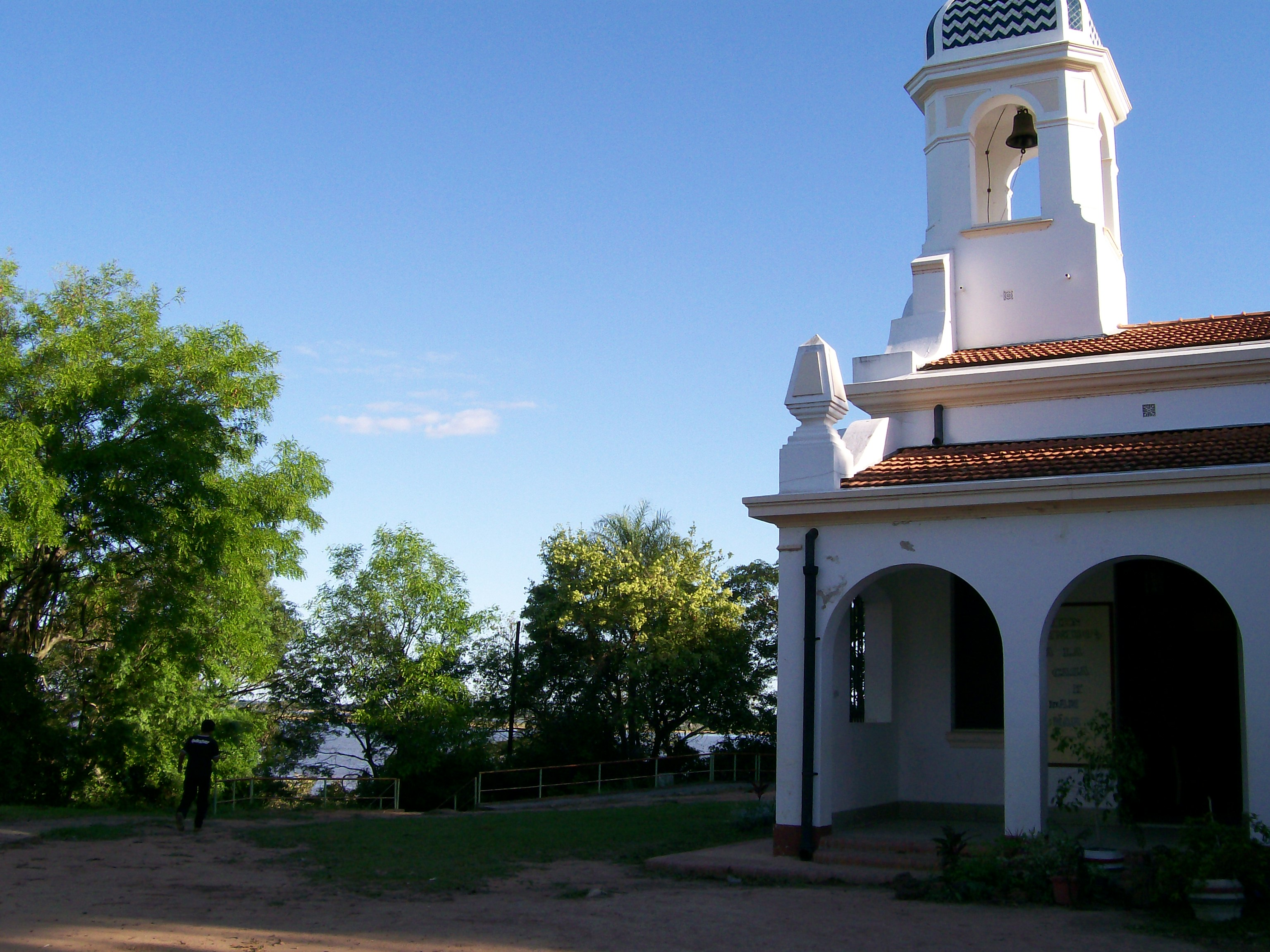 A view of the Isla del Cerrito's Chapel and Paraná River. The chapel is located on the hill that gives the name to the island (Little Hill Island).